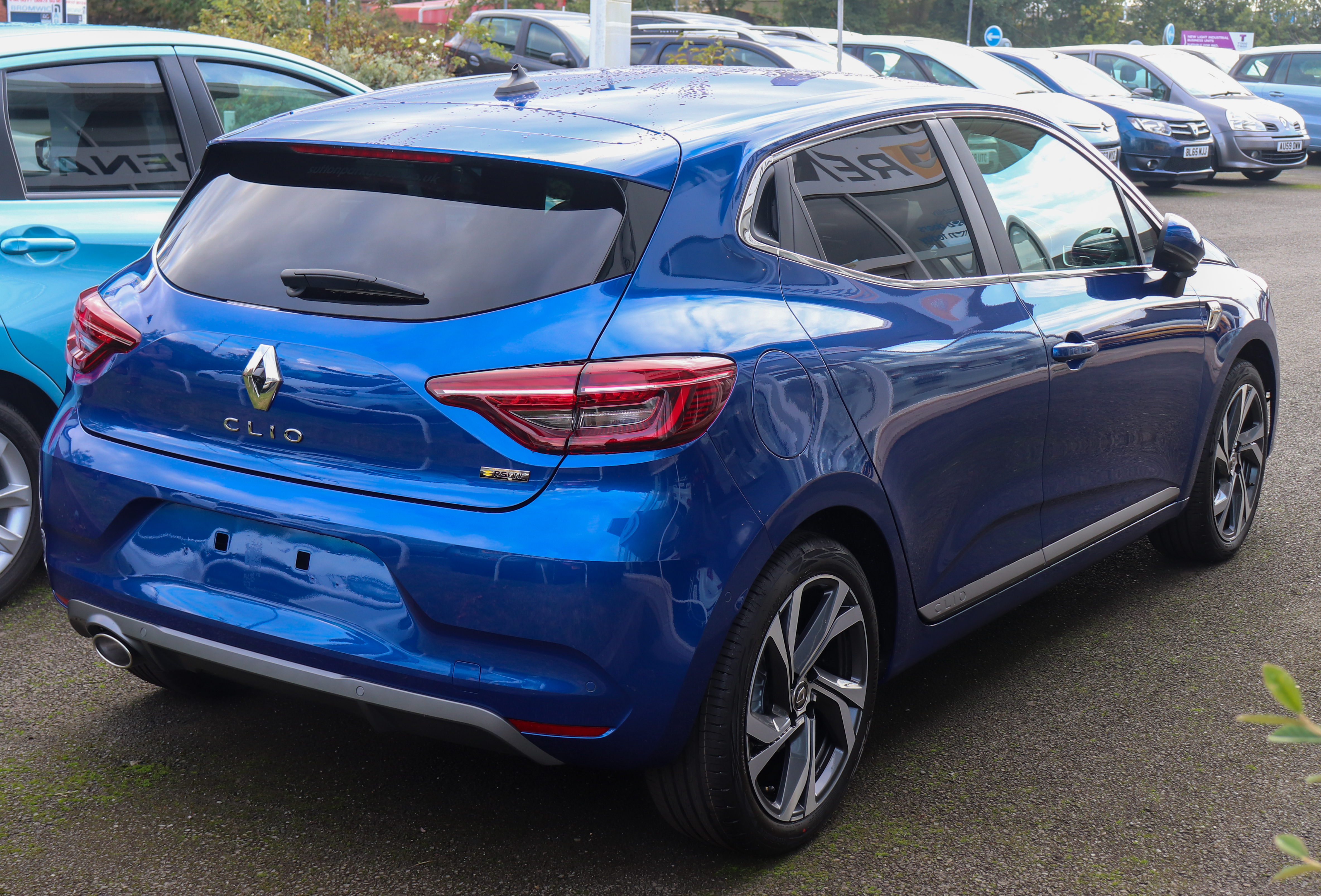 2019 Renault Clio R.S. Line 900cc Rear Taken in Leamington Spa